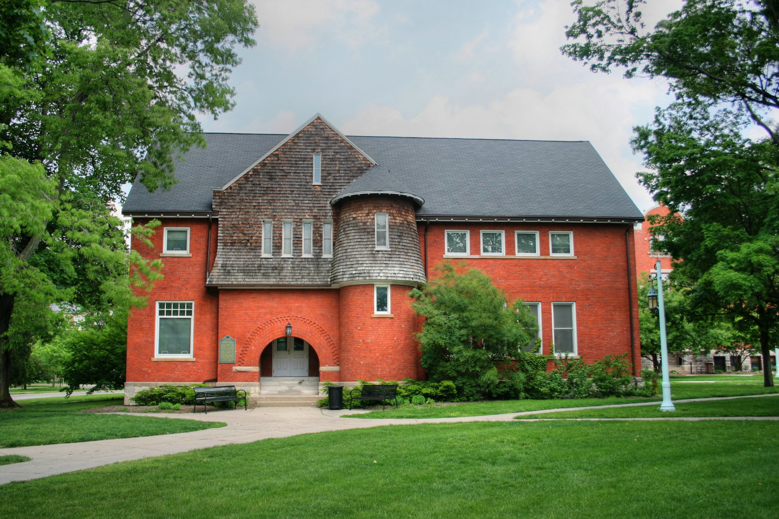 Eustace-Cole Hall, located on the Michigan State University campus in East Lansing, Michigan, United States, is listed on the US National Register of Historic Places (NRHP). This photograph is one of a series taken for Wikipedia by the submitter on May 28th, 2006 between the hours of 3pm and 6pm.